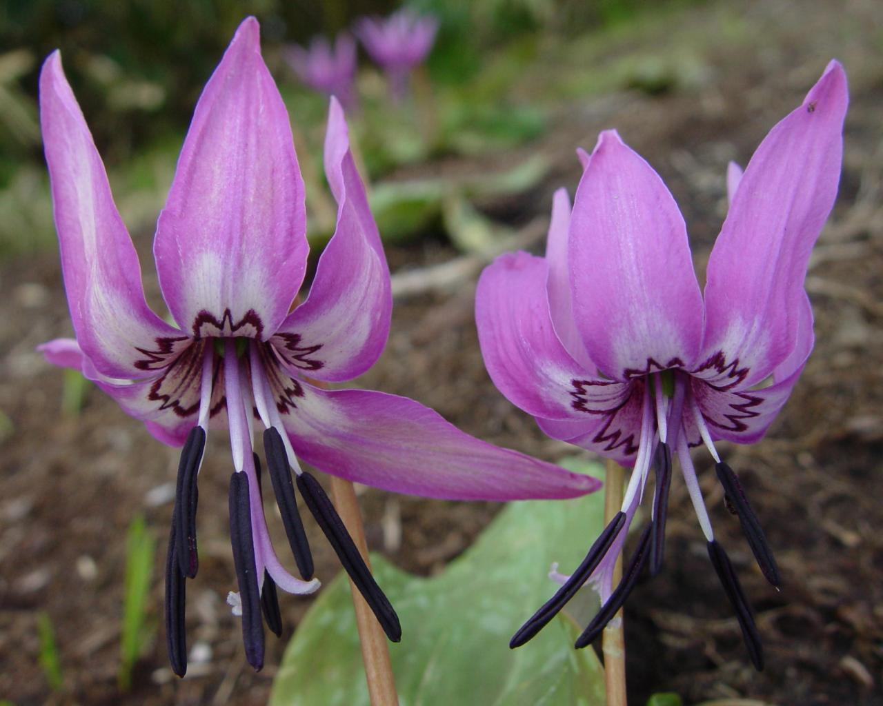 Erythronium japonicum (Katakuri) seen in Kyoudatake, Japan